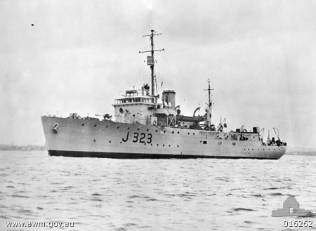 Australian War Memorial image 016262. HMAS Benalla shortly after she was commissioned into the Royal Australian Navy. A gun shield was later fitted around her four inch gun.